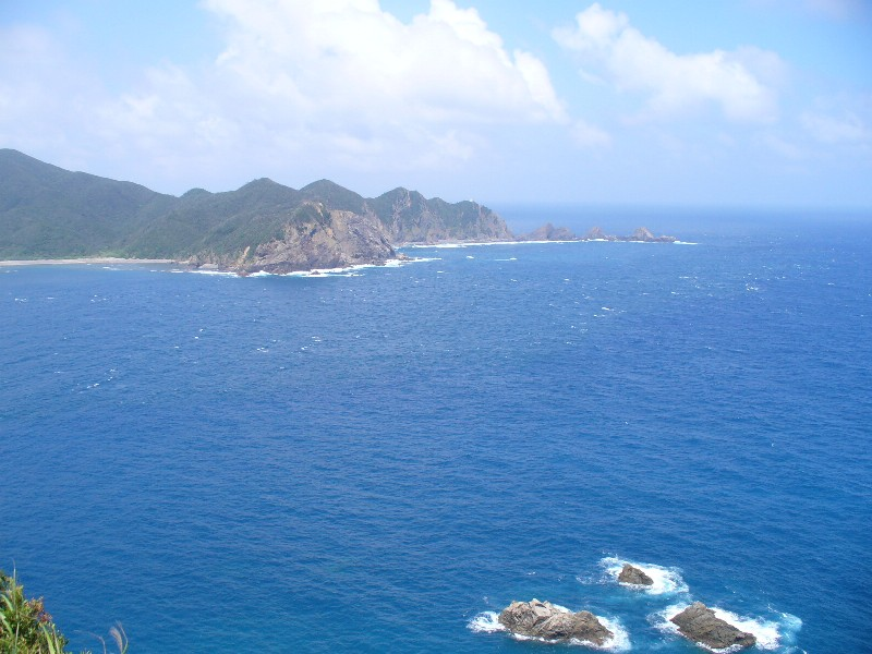 East side of Oshima straight from the ruin of Kanekotezaki observation post at Ankyaba battery, Kakeroma island Setouchi town Kagoshima prefecture, Japan. The other side is Amami Ōshima.